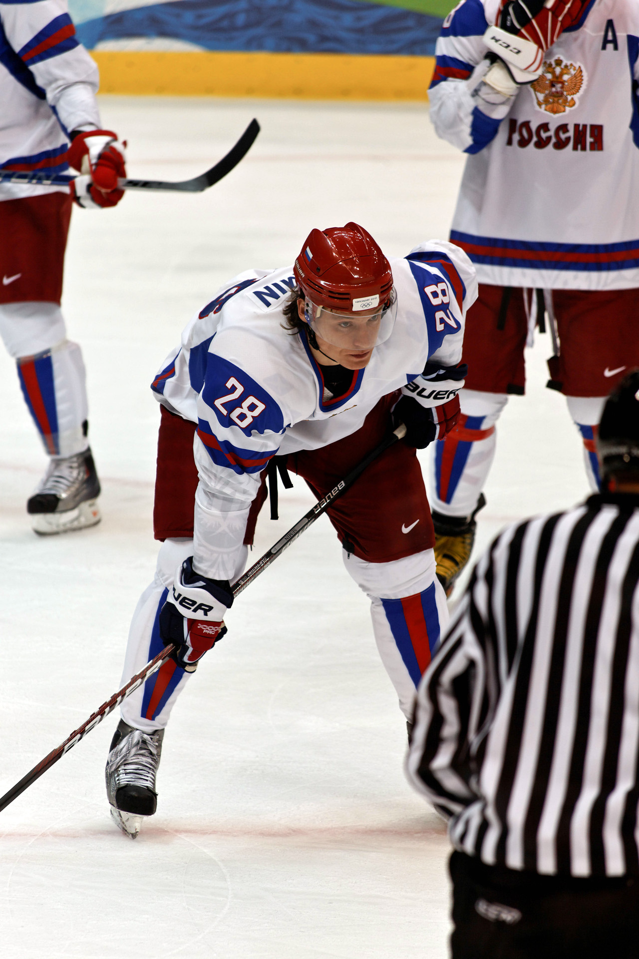 Russia forward Alexander Semin lines up for a faceoff against Slovakia during the 2010 Winter Olympics